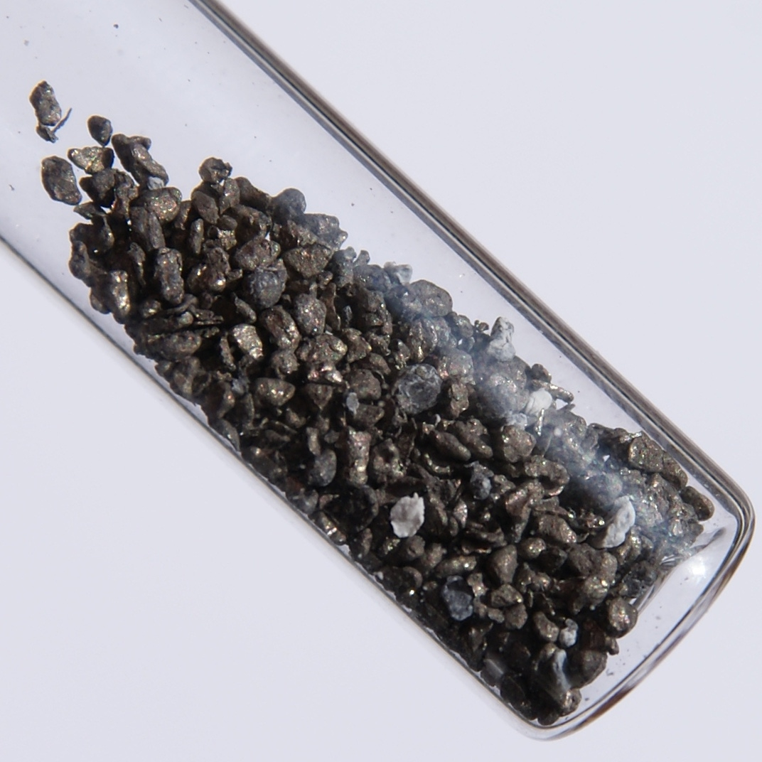 Calcium grains, grain size about 1 mm.